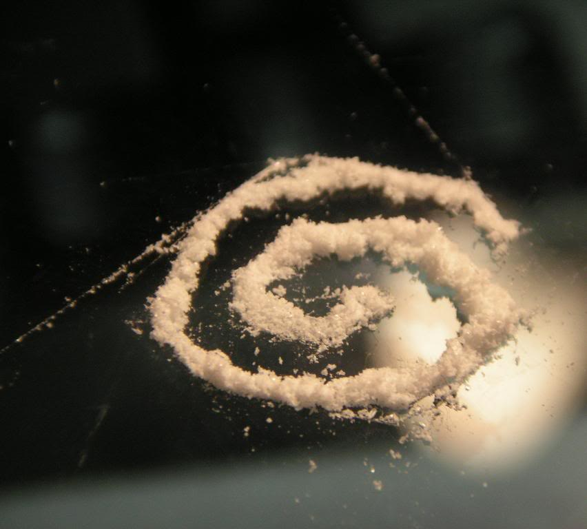 A Spiral of Ketamine with Equation r = a + bθ